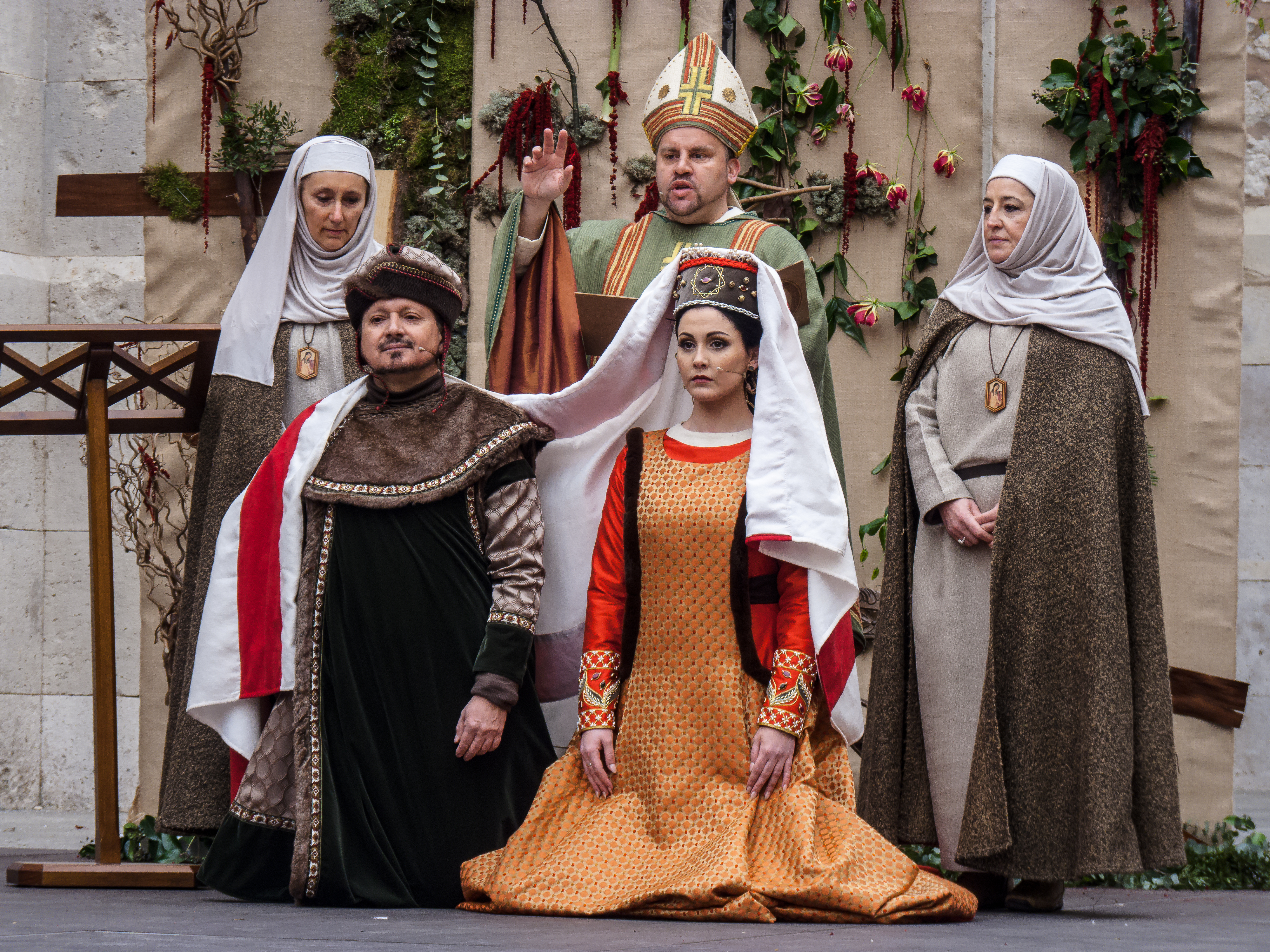 Bodas de Isabel de Segura. Teruel This is a photography of a Folklore festival in Spain (Wikidata id Q23657061).